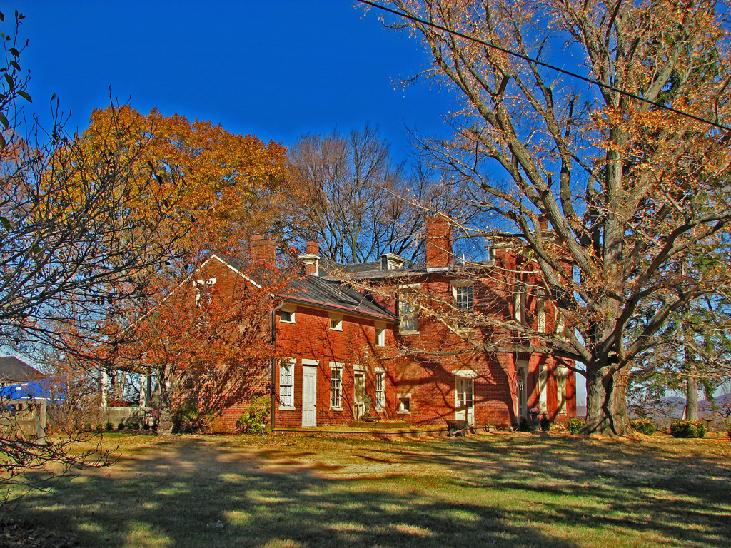 Front and western side of the Mountain House, located on Highland Avenue on the western side of Chillicothe, Ohio, United States. Built in 1852, it is listed on the National Register of Historic Places.